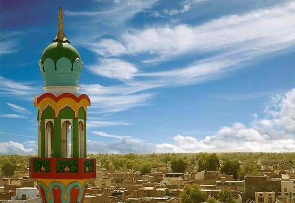 layyah